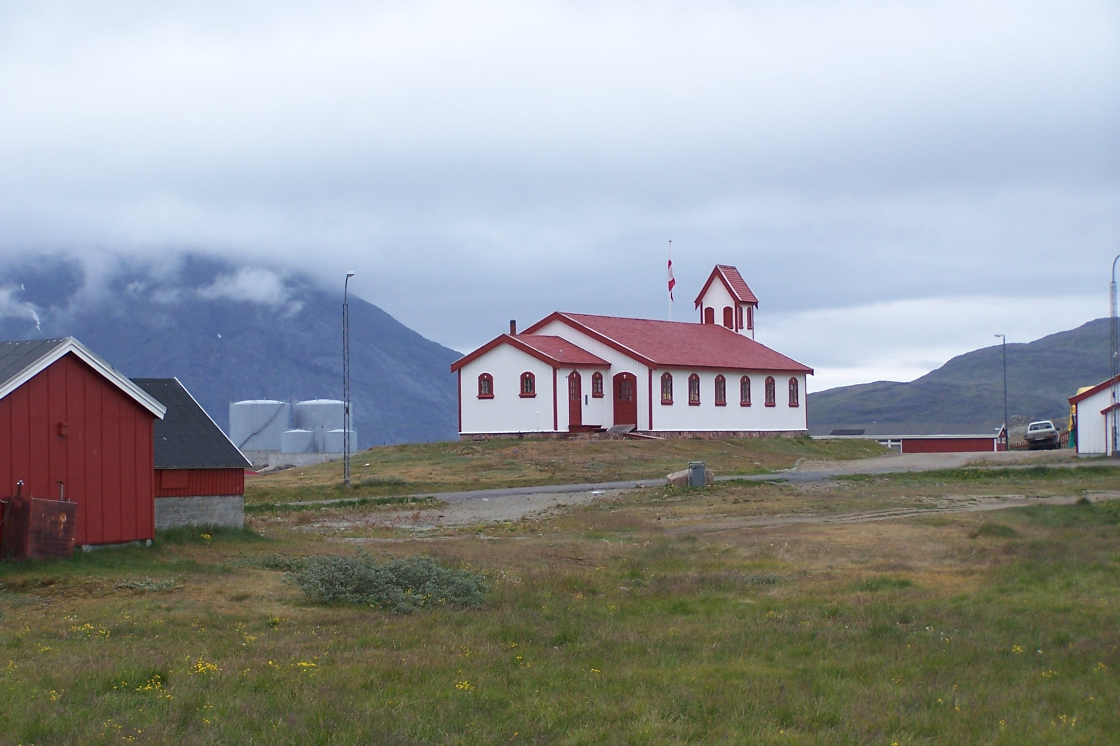 The church in Narsaq, Greenland